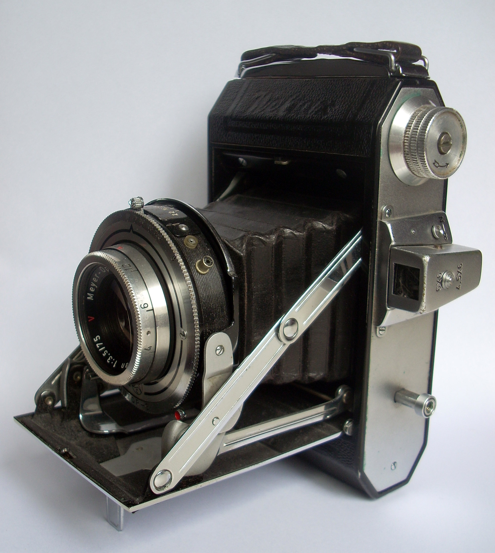 Welta Weltax, a German camera.